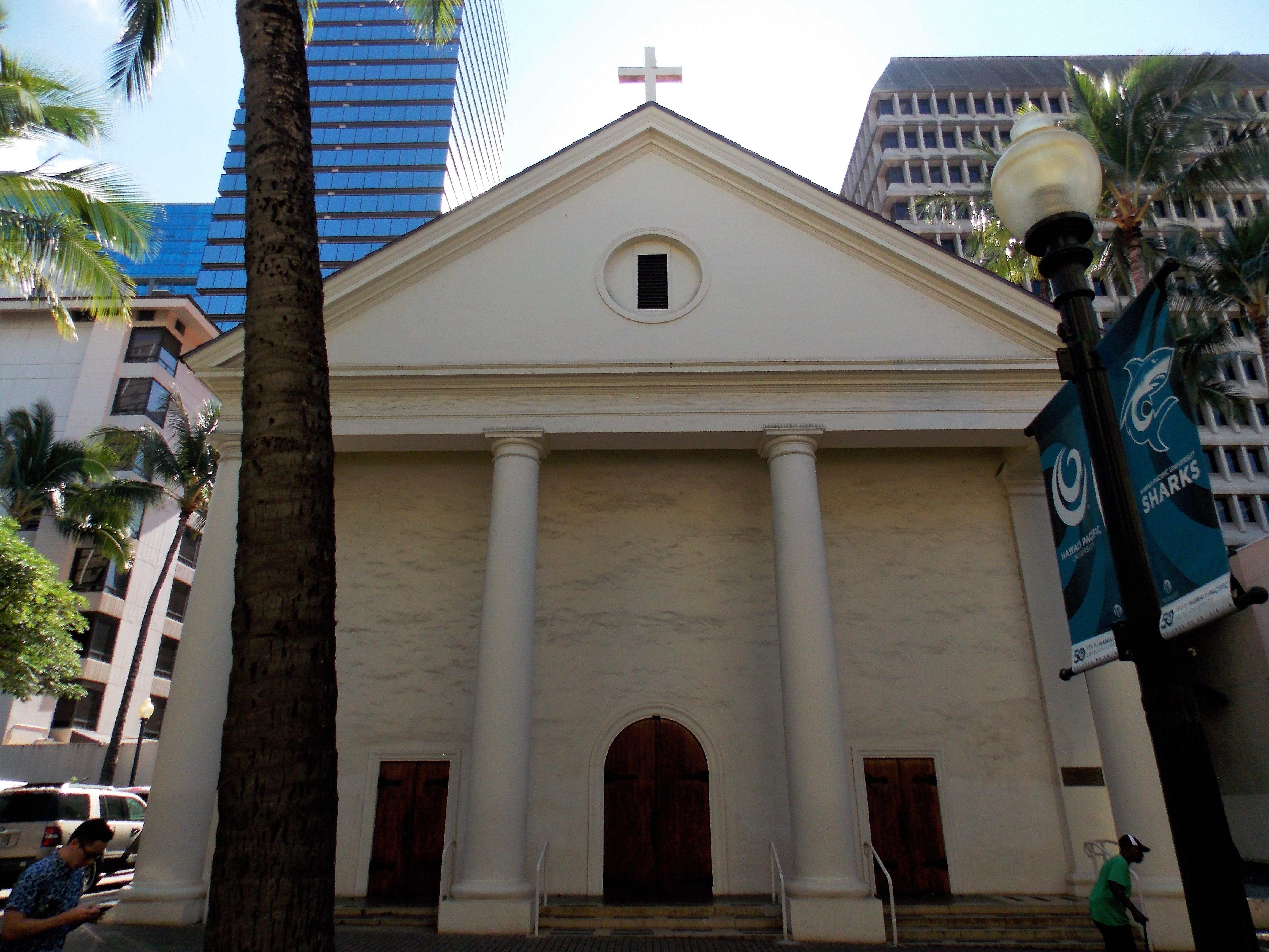 The facade of the Cathedral Basilica of Our Lady of Peace in Honolulu, Hawaii.